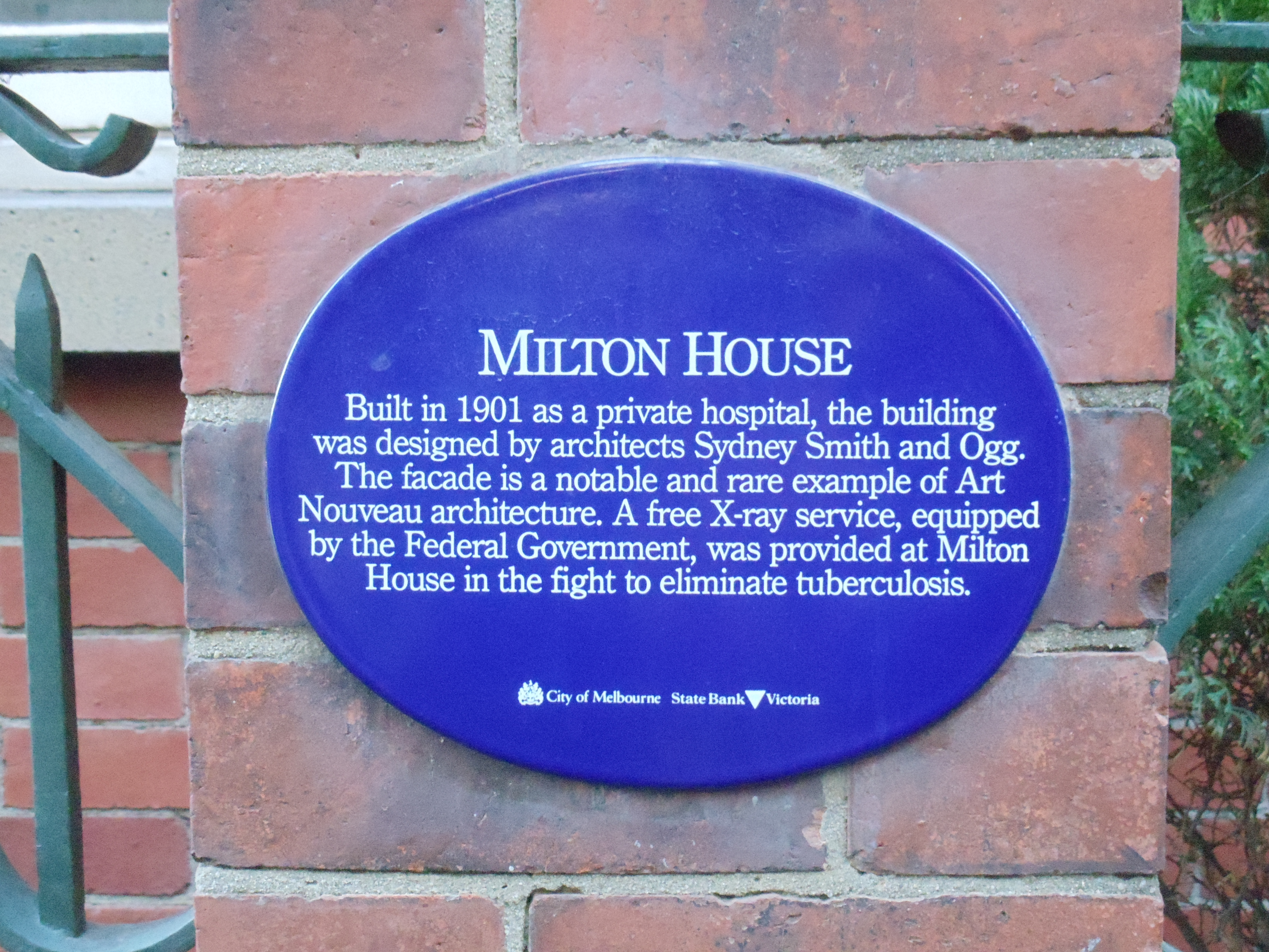 Sign about Milton House on Flinders Lane in Melbourne.